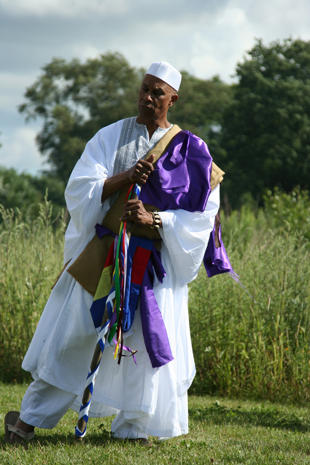 Elliott Rivera is Sangoma (shaman) from the Afro-Cuban Santeria. He is a trancemedium and works alot with his ancestors. He gives you the chance to feel and hear the wisdom coming from your own ancestors.